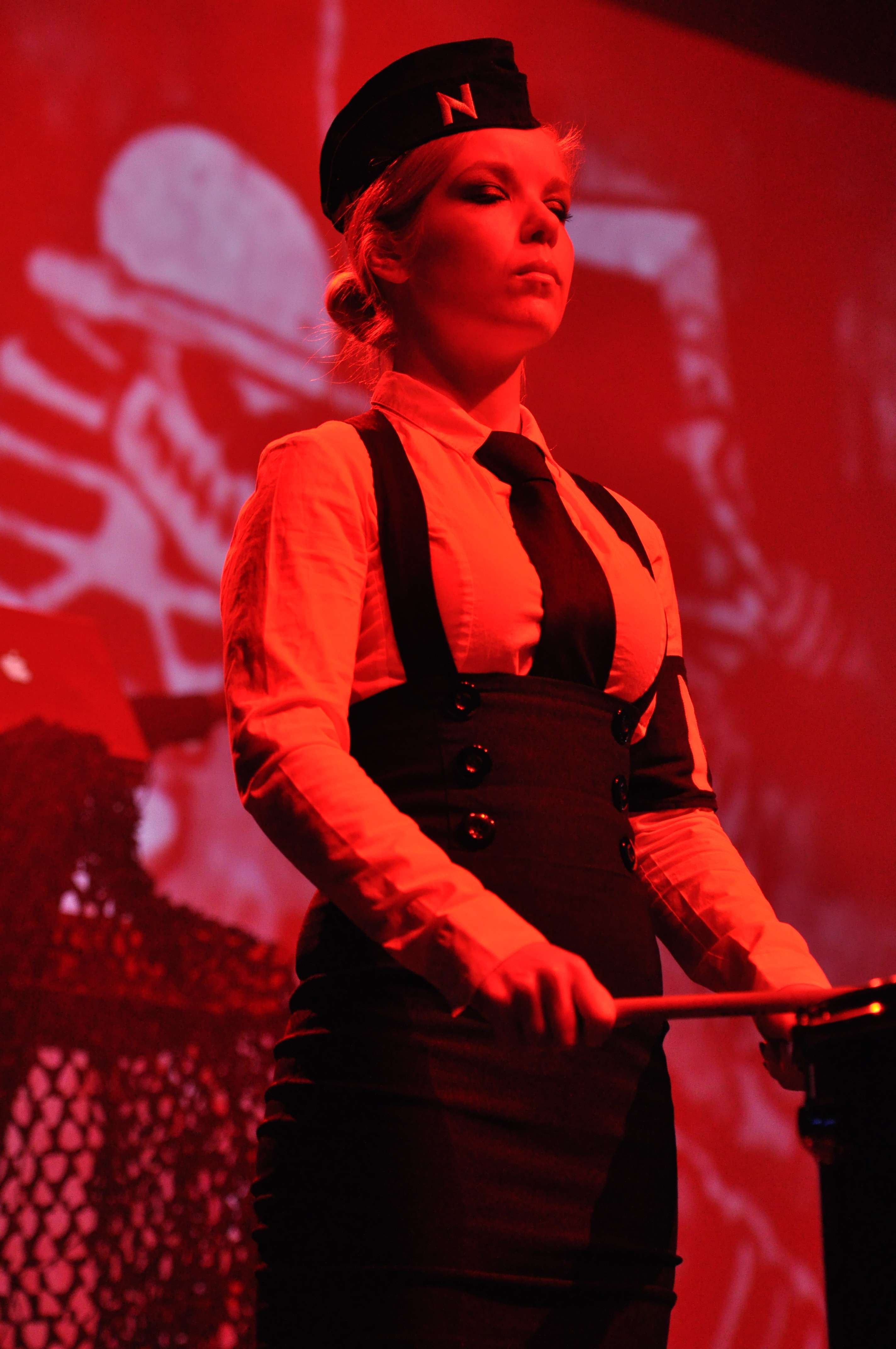 The austrian Band Nachtmahr at e-tropolis 2013, Berlin